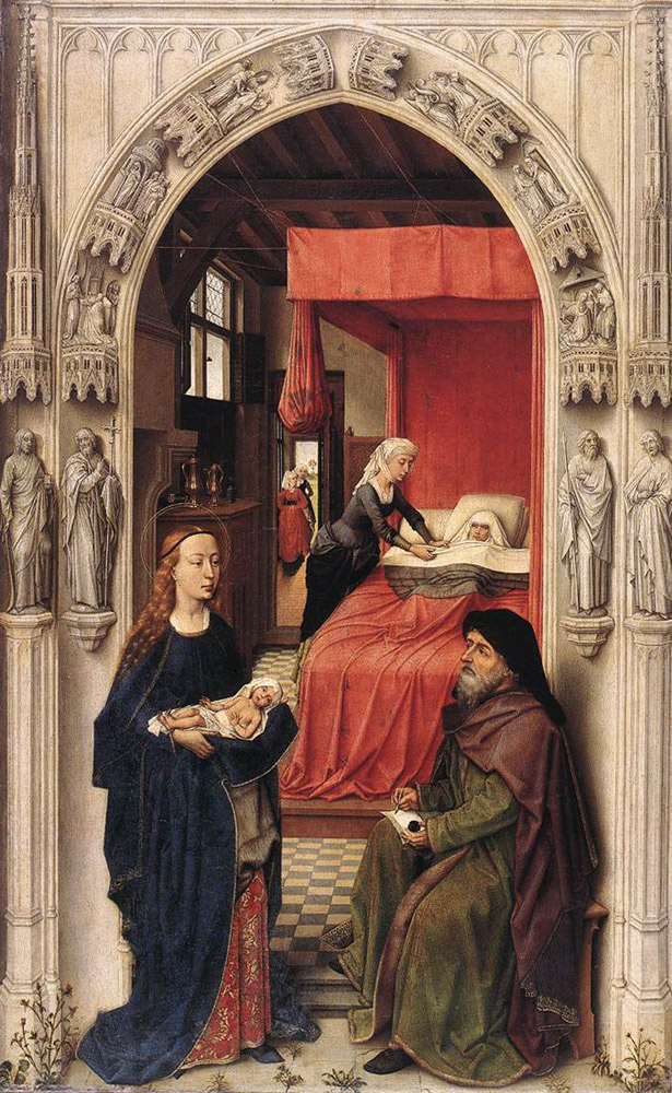 Naming of John the Baptist Staatliche Museen, Berlin, Left panel of the "St. John Altarpiece"